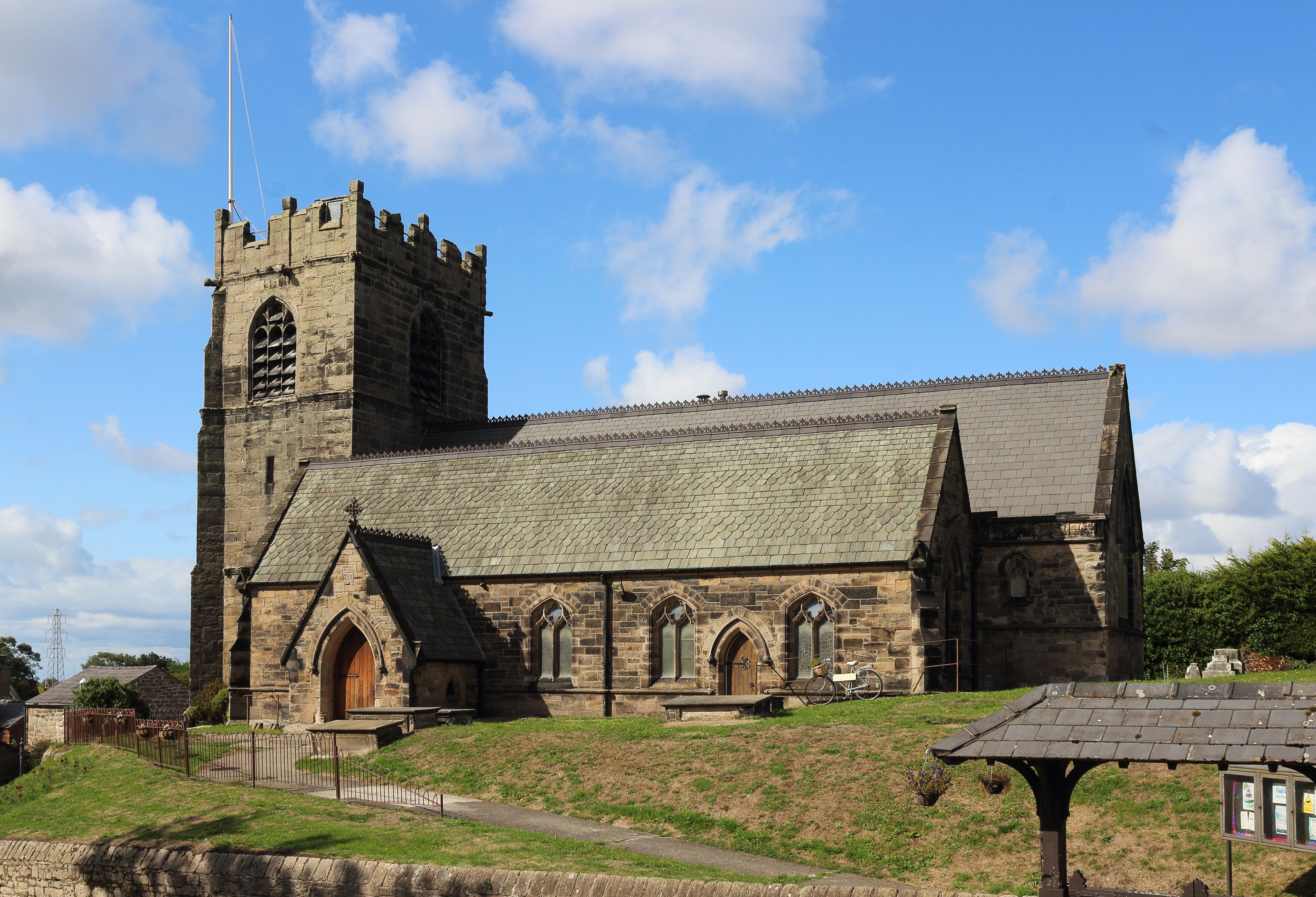 Grade II listed church of St Oswald, Bidston. Largely 1856 by W. and J.Hay but incorporating late medieval tower and with chancel and possibly north aisle added or remodelled in 1882 by W.E.Grayson. View from the war memorial opposite.